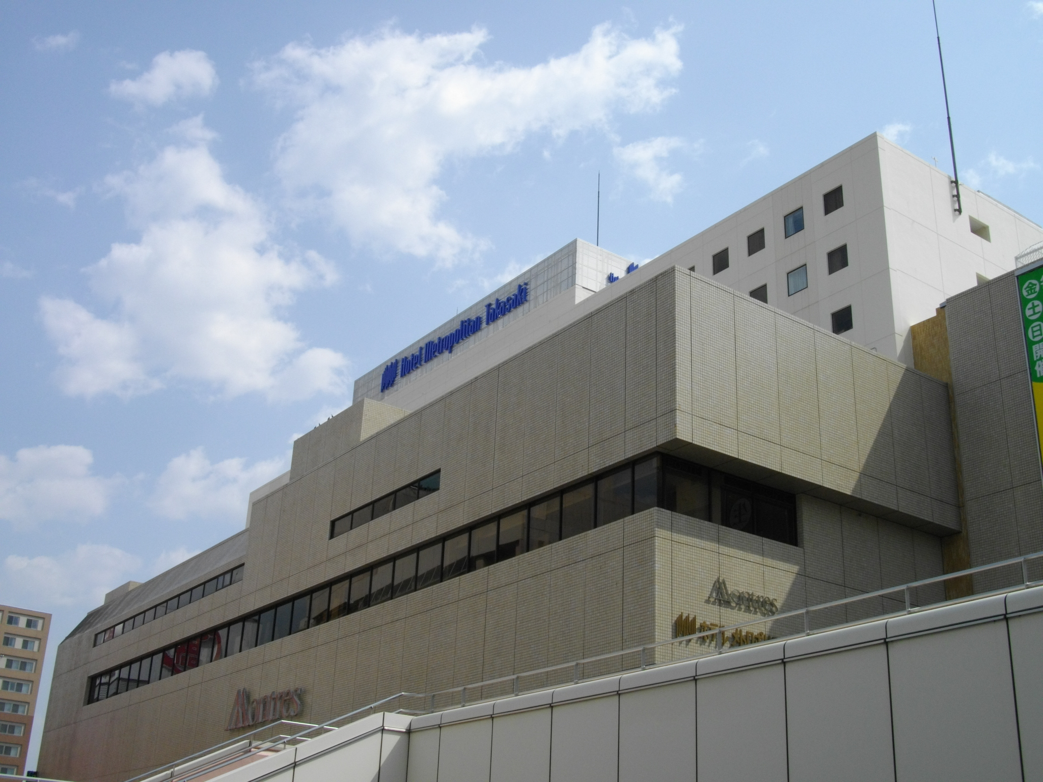 Hotel Metropolitan Takasaki